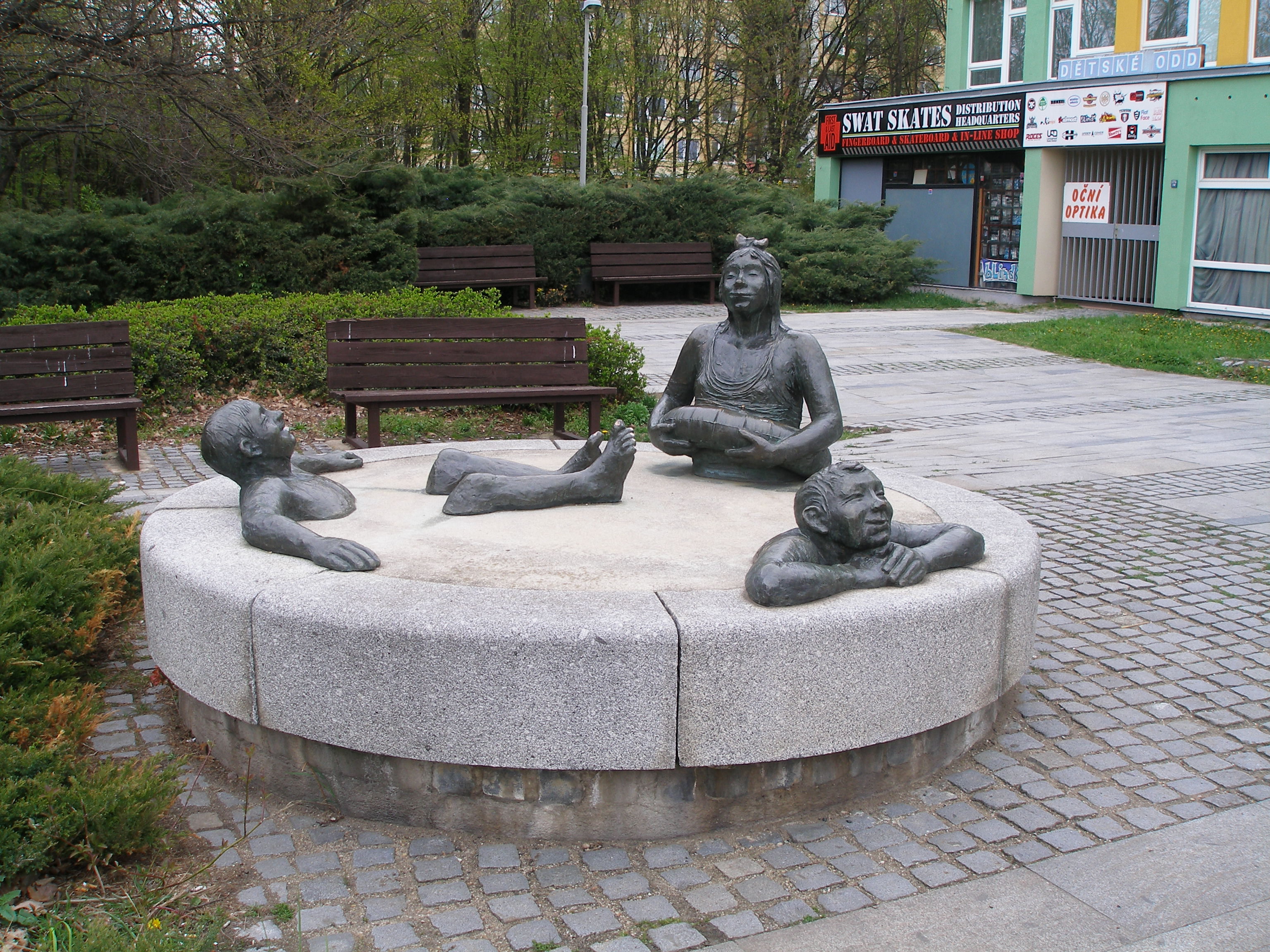 Sculpture near Poliklinika Čumpelíkova in Prague, Kobylisy.